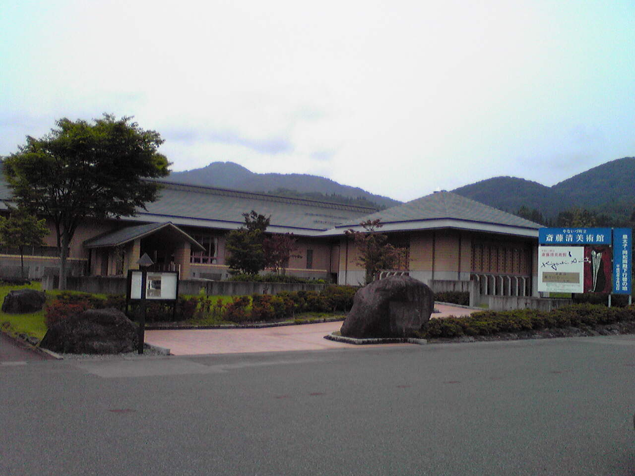 Kiyoshi Saito Museum of Art at Michinoeki Aizu Yanaizu in Yanaizu Town, Fukushima Prefecture, Japan